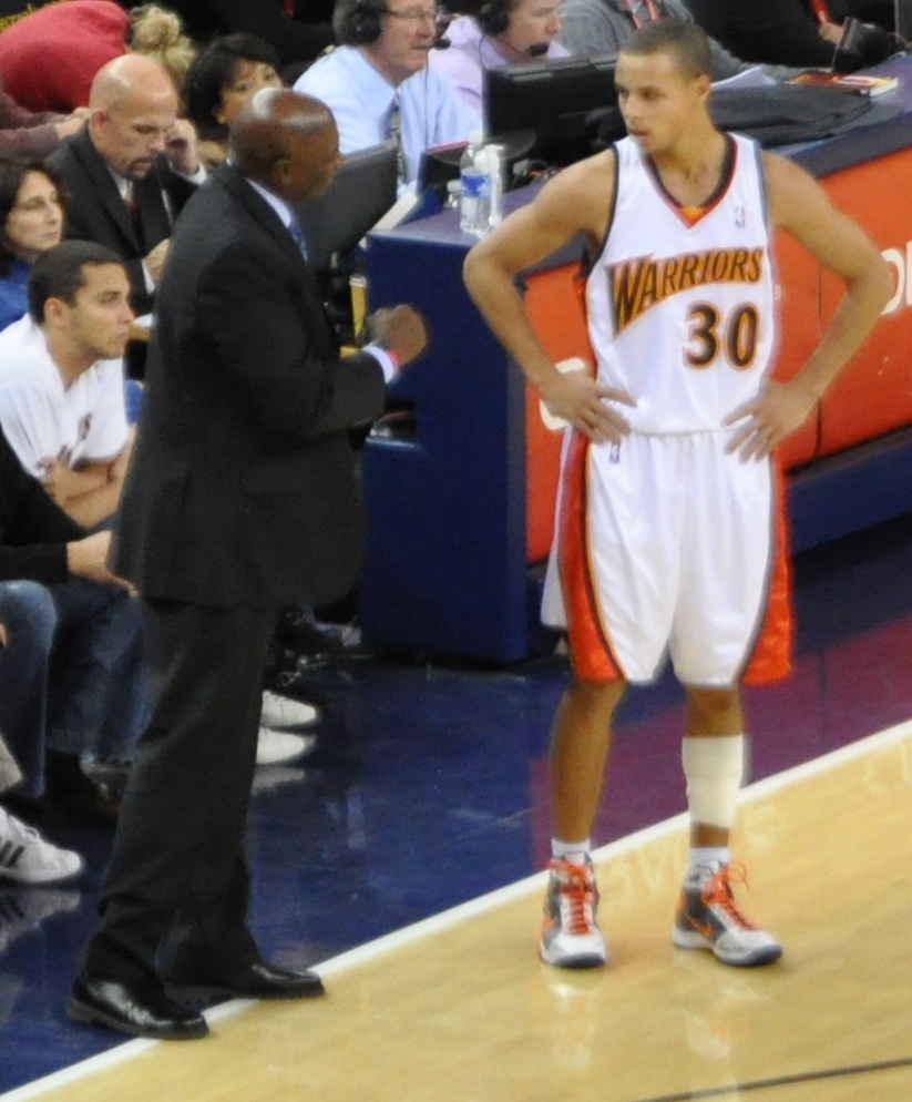 Stephen Curry taking instructions from assistant coach Keith Smart